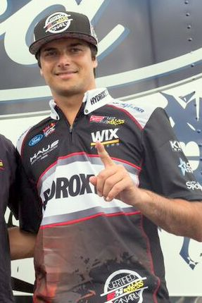 Andreas Bakkerud with Nelson Piquet, Jr. (far right). Bakkerud replaced Piquet, Jr. for the SH Rallycross team during X Games XXI, as Piquet, Jr. did a Formula E race in Moscow at the same time.